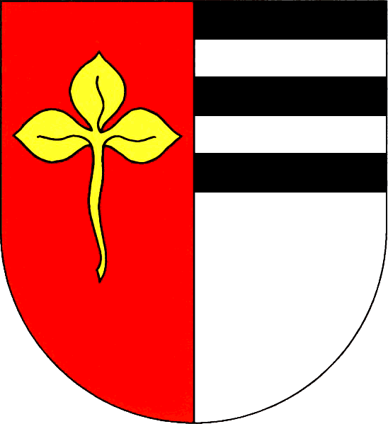 Coat of arms of Dobřichov (city in Czechia)